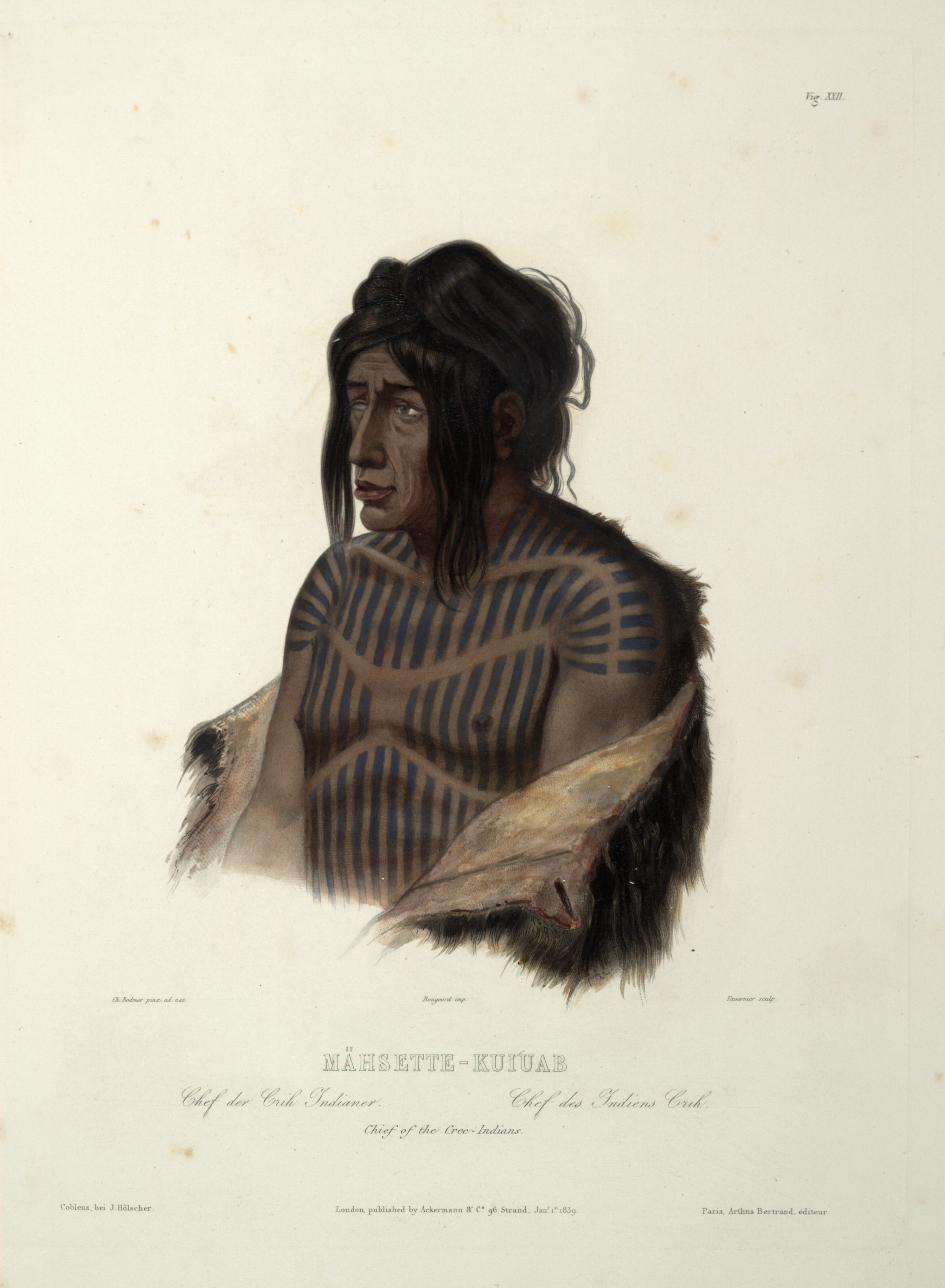 Mähsette Kuiuab Chief of the Cree indians